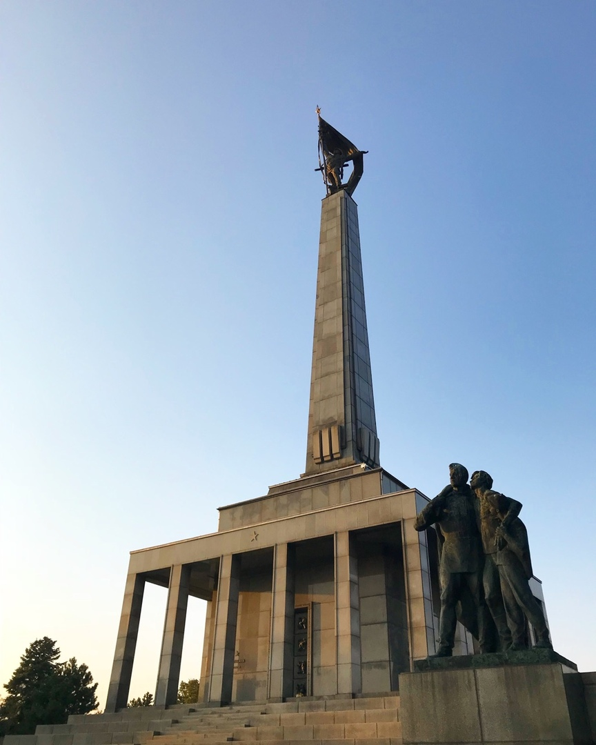 Slavin